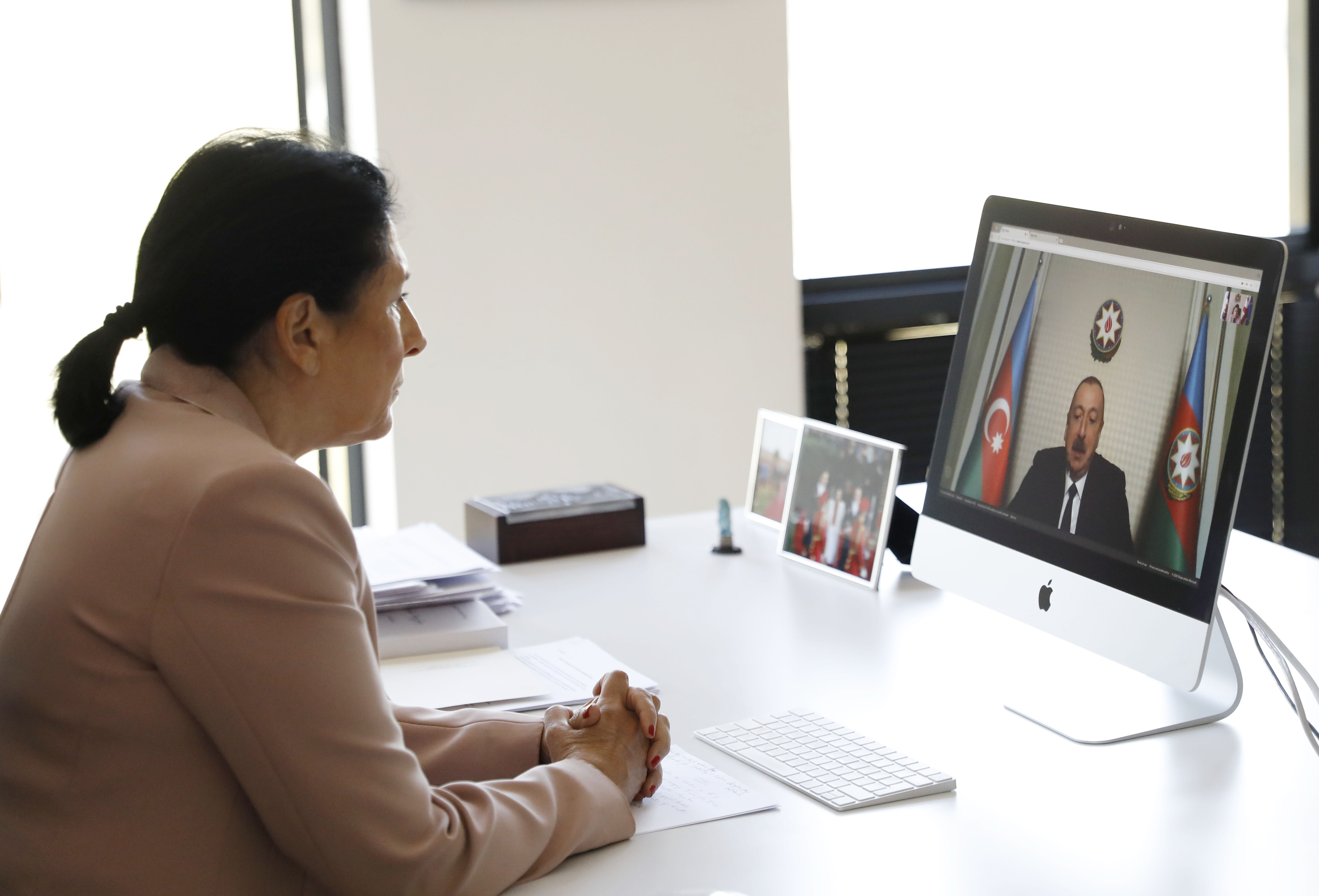 Georgian President Salome Zourabichvili discussing the COVID-19 pandemic with Azerbaijani President Ilham Aliyev.